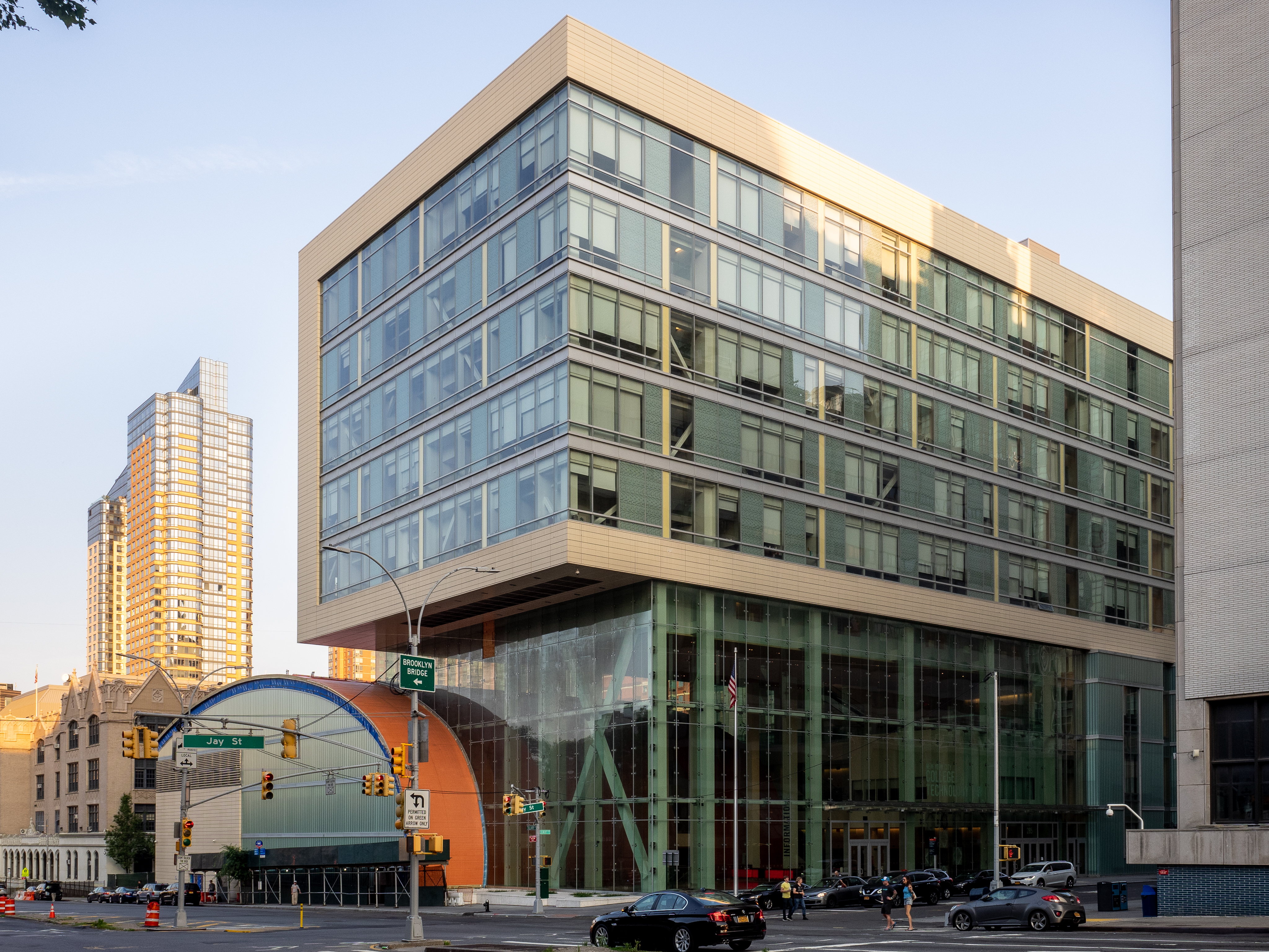 Downtown Brooklyn, Brooklyn, New York City